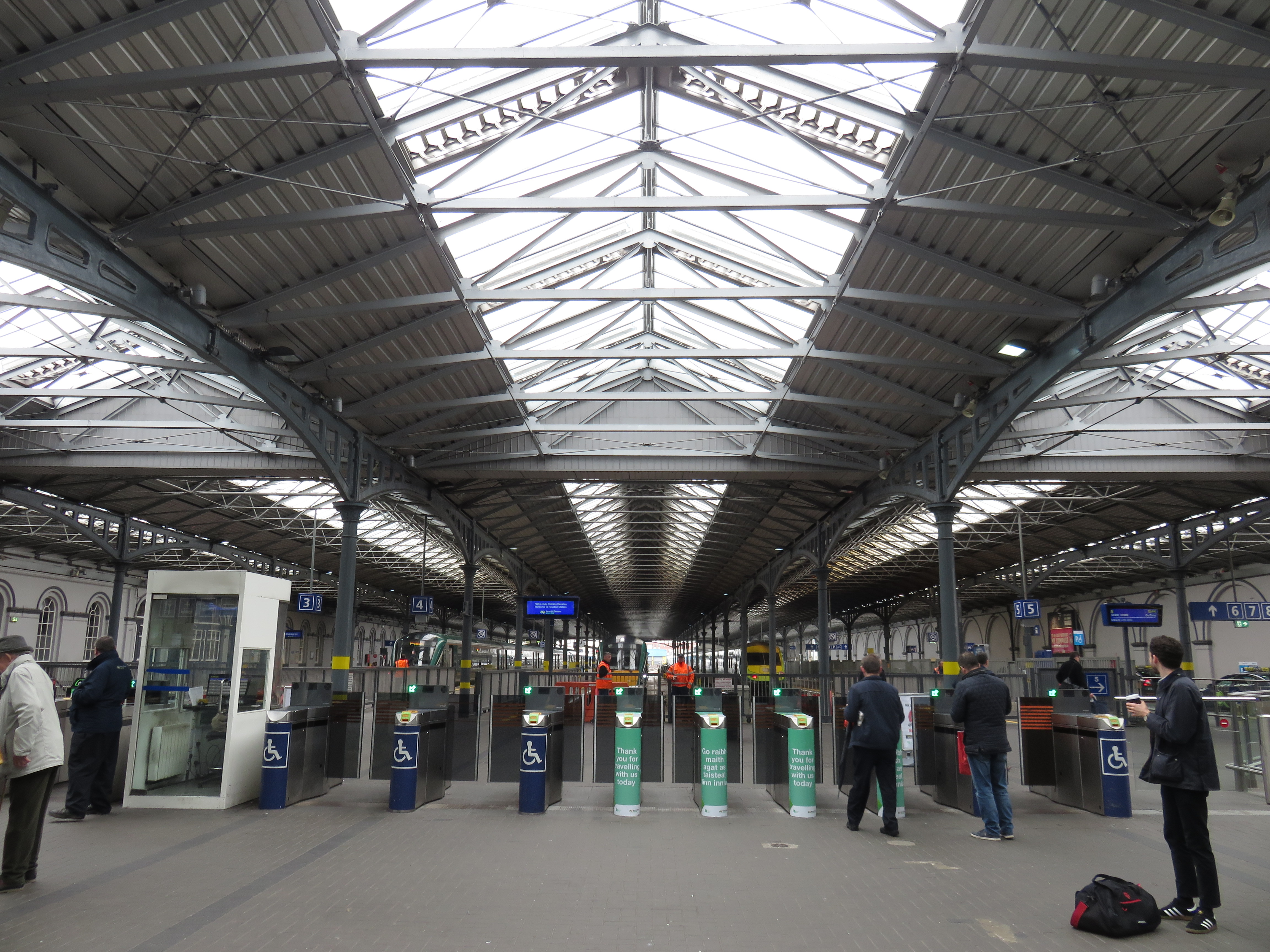 Interior entrance to track area of Heuston railway station in Dublin, Ireland in 2018